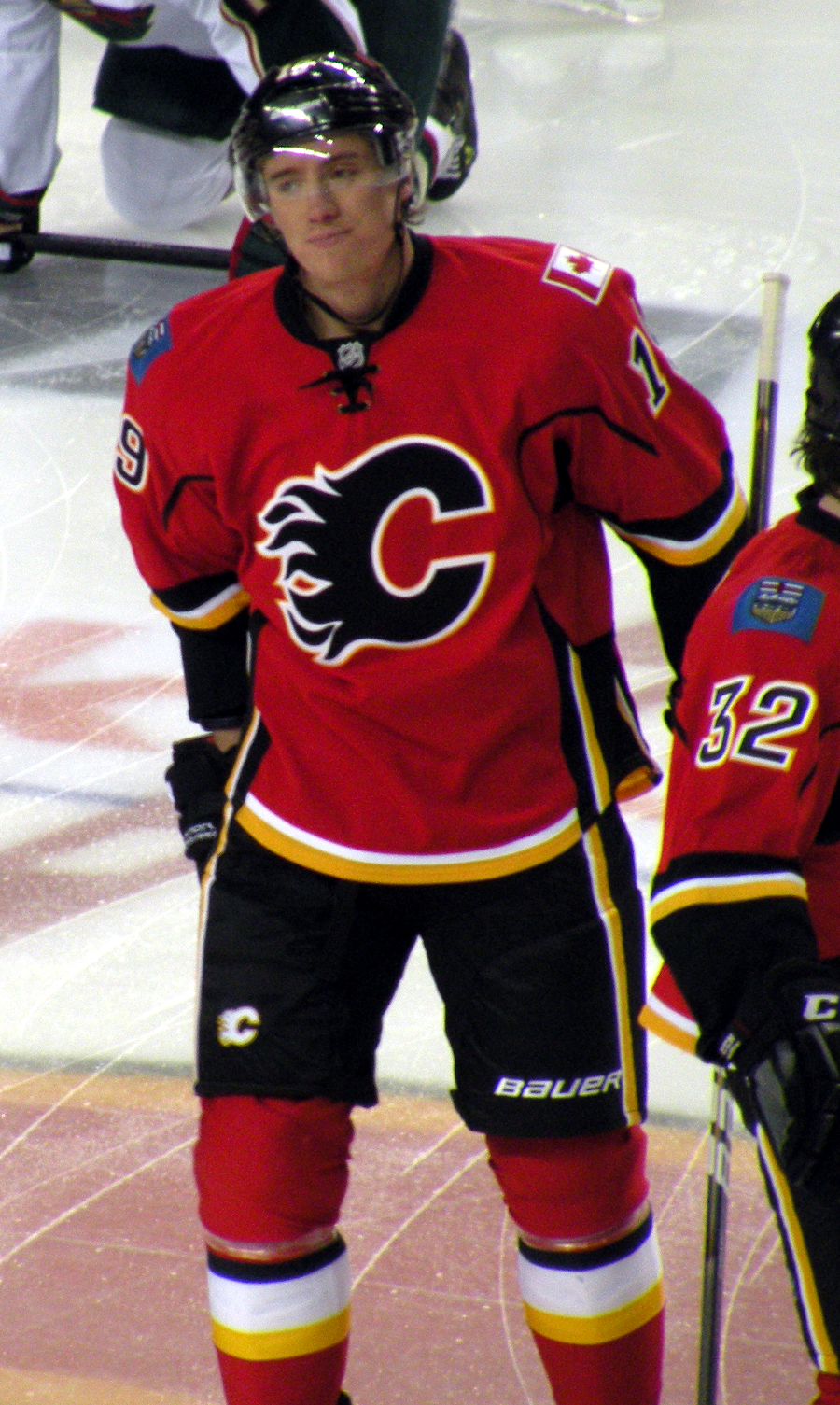 Calgary Flames forward Blair Jones prior to a National Hockey League game against the Minnesota Wild, in Calgary.